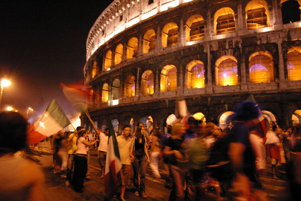 Celebrations at Colosseum after Italy won the FIFA World Cup Germany 2006